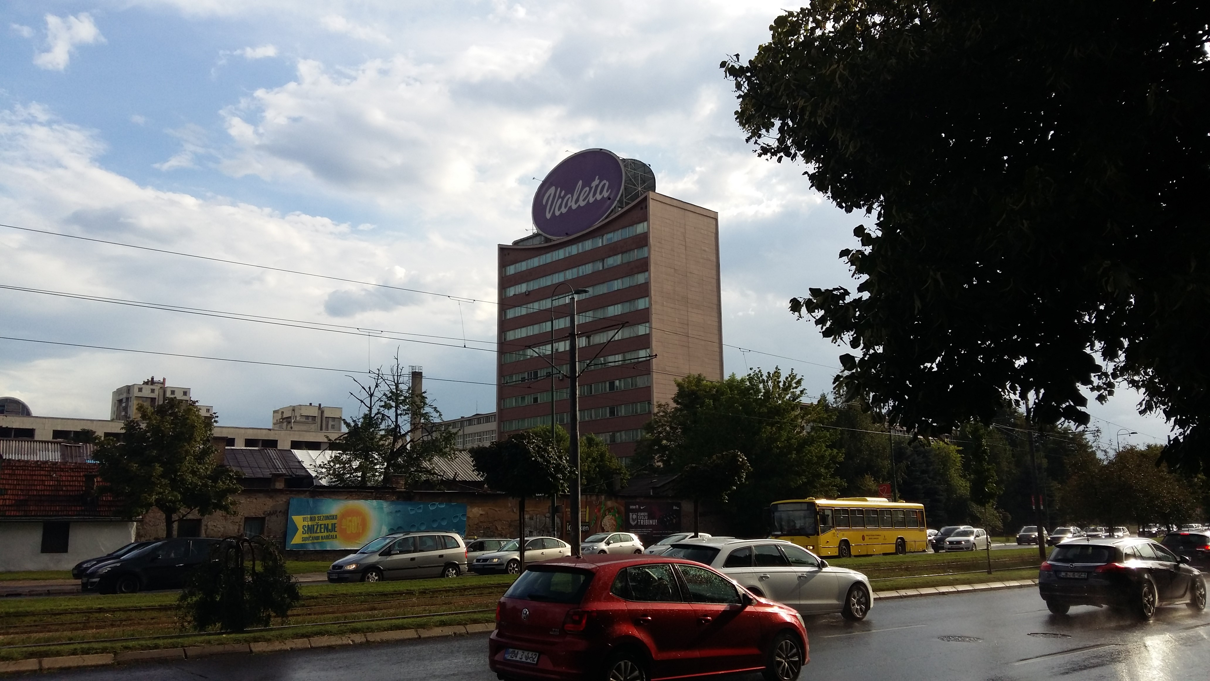 Violeta commercial on Faculty of science an mathematics building in Sarajevo